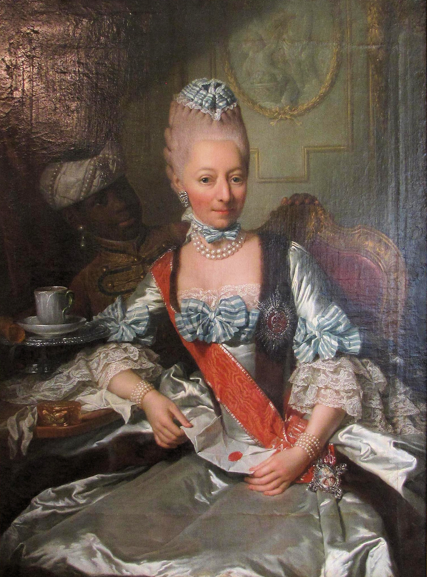 Herzogin Louise Friederike with the court's African servant Caesar